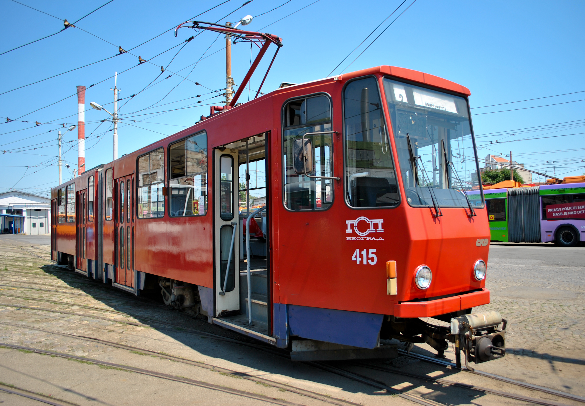 Tatra KT4M-YUB in Belgrade